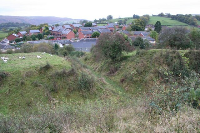 Builth Castle This could well have been the entrance to the castle.